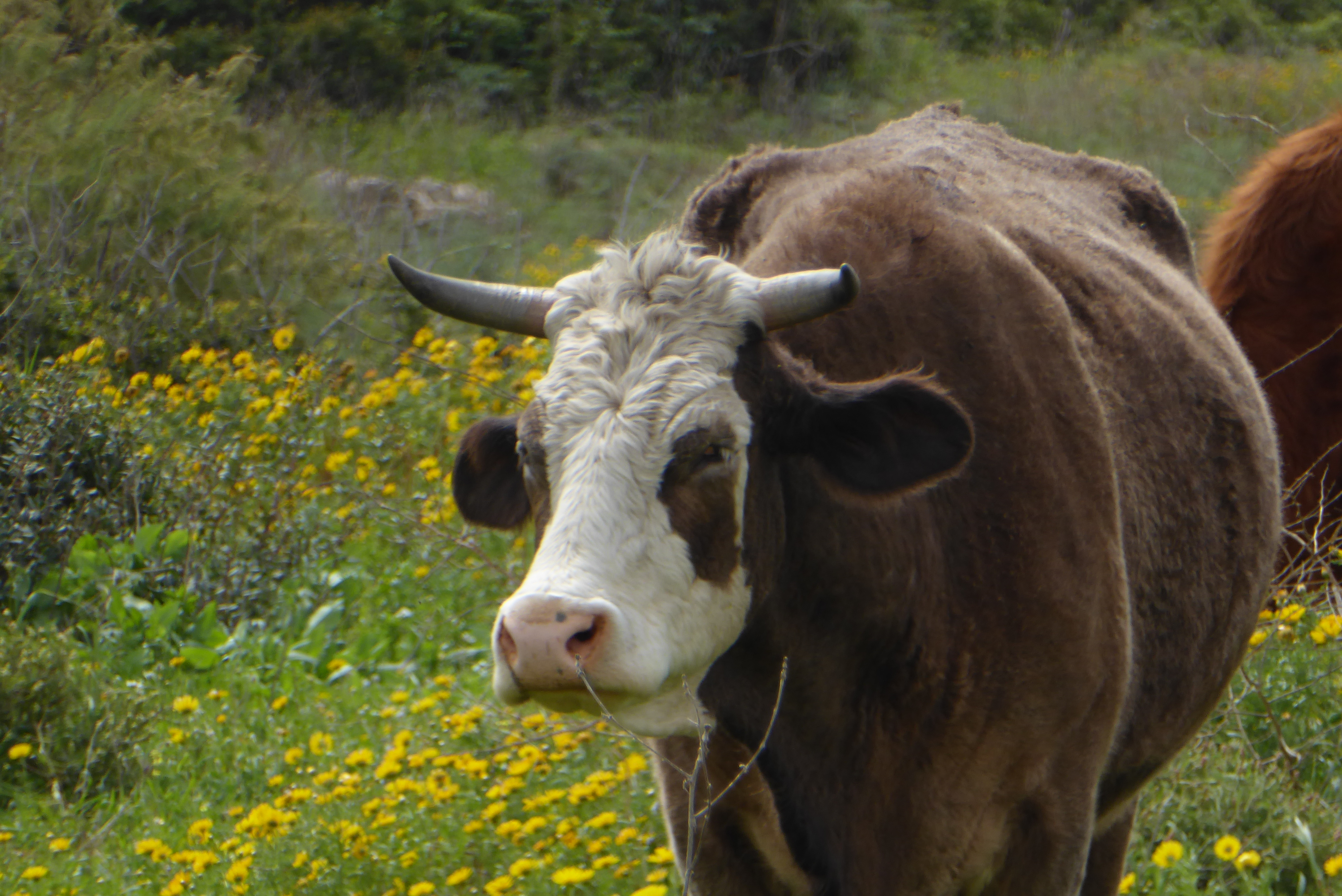 Animals of Israel